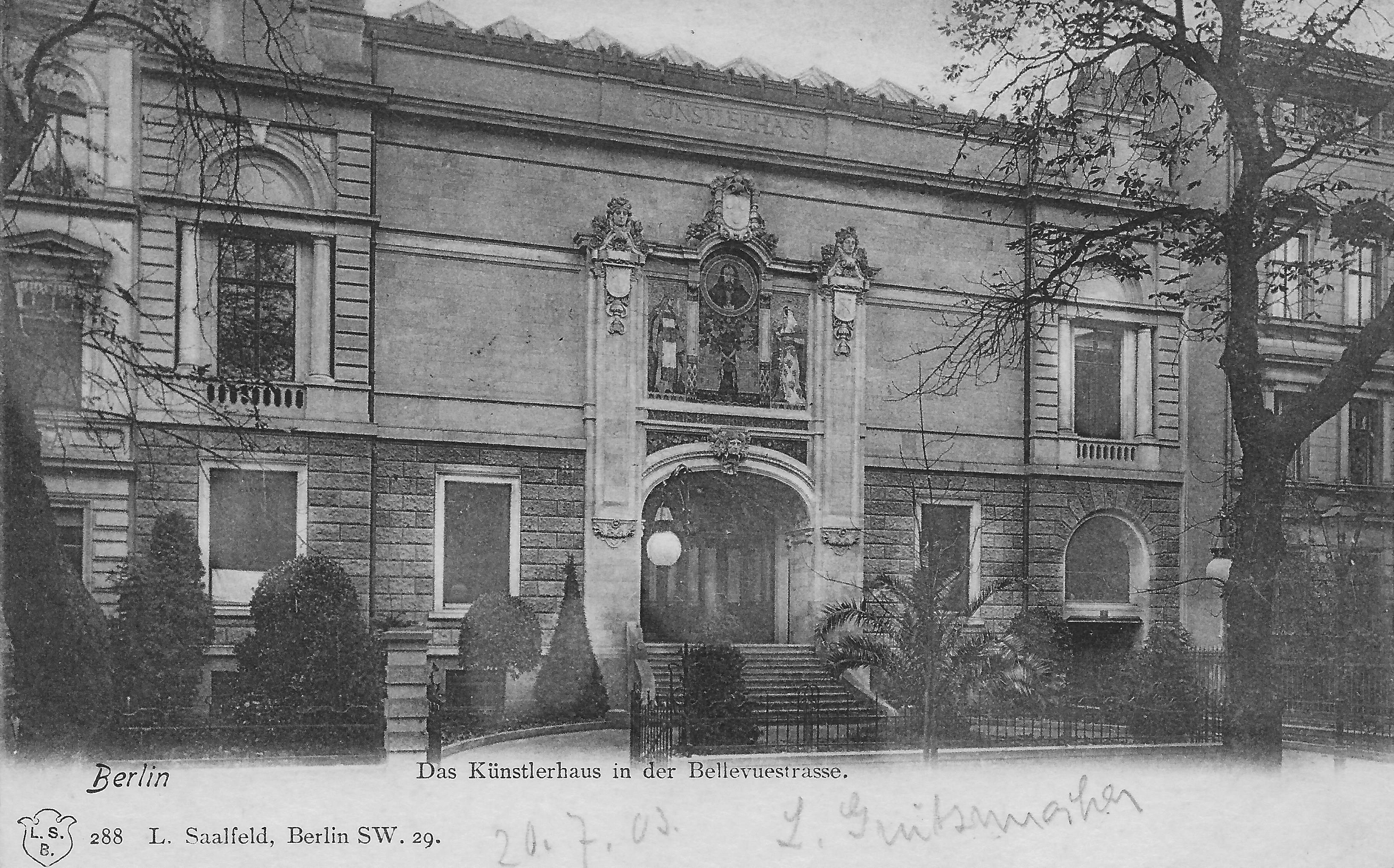 Clubhouse of the "Verein Berliner Künstler" in Berlin (postcard 1903)